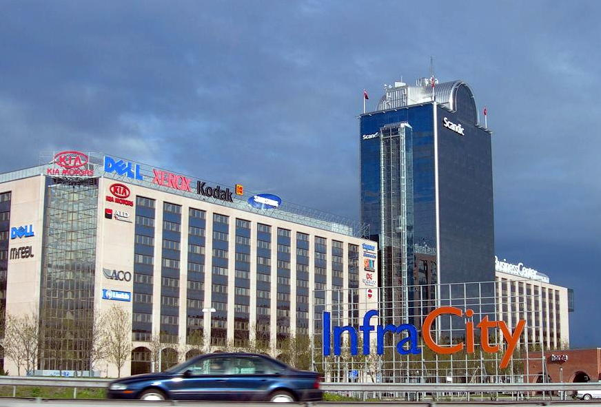 Infra City i Upplands Väsby. Foto Bronks